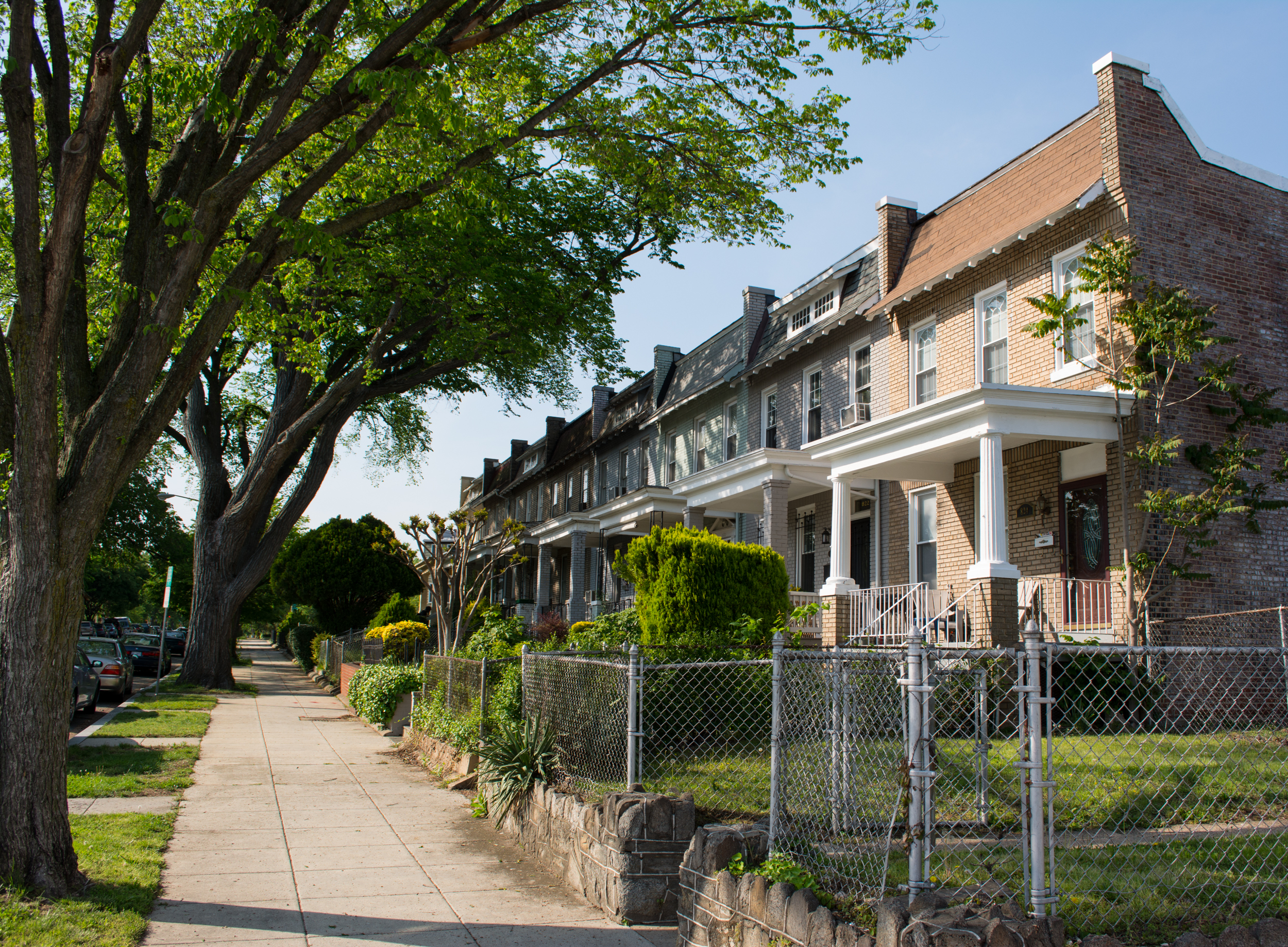 Rowhouses on the 800 block of Kentucky Avenue SE in the Barney Circle neighborhood in Washington, D.C., in the United States. The neighborhood was developed between 1919 and 1921 to accommodate a sudden influx of defense workers in during World War I. The homes are primarily two-story brick rowhouses with mansard roofs and dormers, with open-air front porches. Most of the homes are set back from the street at a uniform distance, and have a front yard. The houses tend to wide and shallow, unlike rowhouses elsewhere on Capitol Hill (which are narrow and deep). This type of rowhouse is known as a "daylight rowhouse", and was developed in the early 20th century to permit maximum daytime lighting of all rooms as a means of reducing electricity use for lighting.